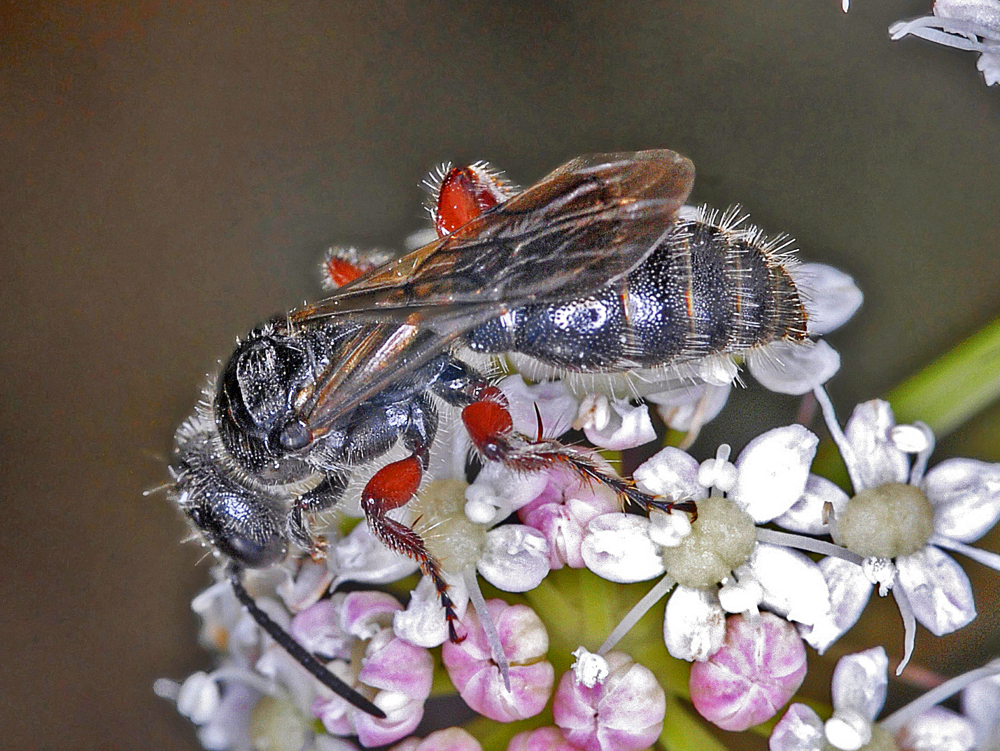 Tiphia femorata. Female. Val Noci, Genova, Italy